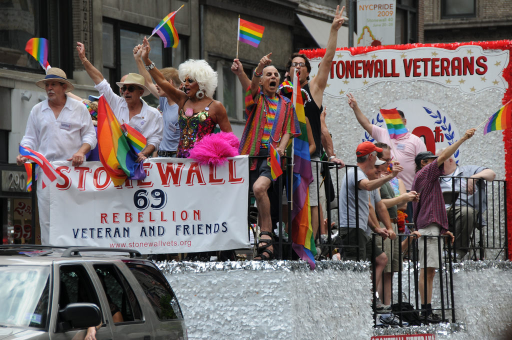 The guys who started it.